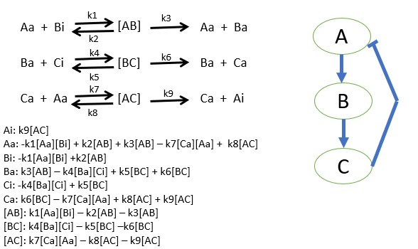 This is a simple made up biological pathway with Michealis Menten reactions which are modeled by differential equations utilizing mass action kinetics.